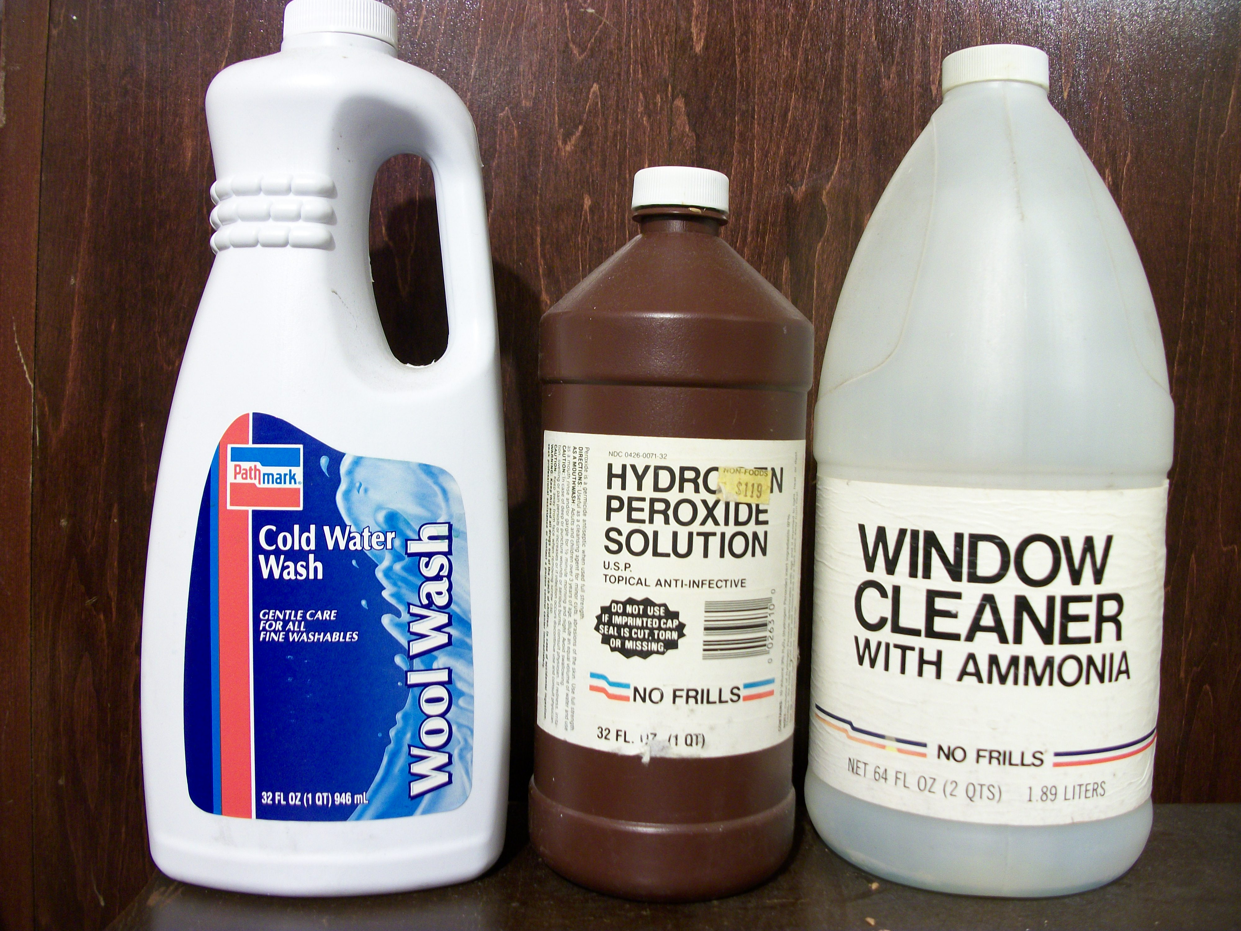 sample of obsolete "pathmark" generic brand and "no frills" brand products, pathmark brand item is from early 2000s, no frills items are from late 1980s/early 1990s